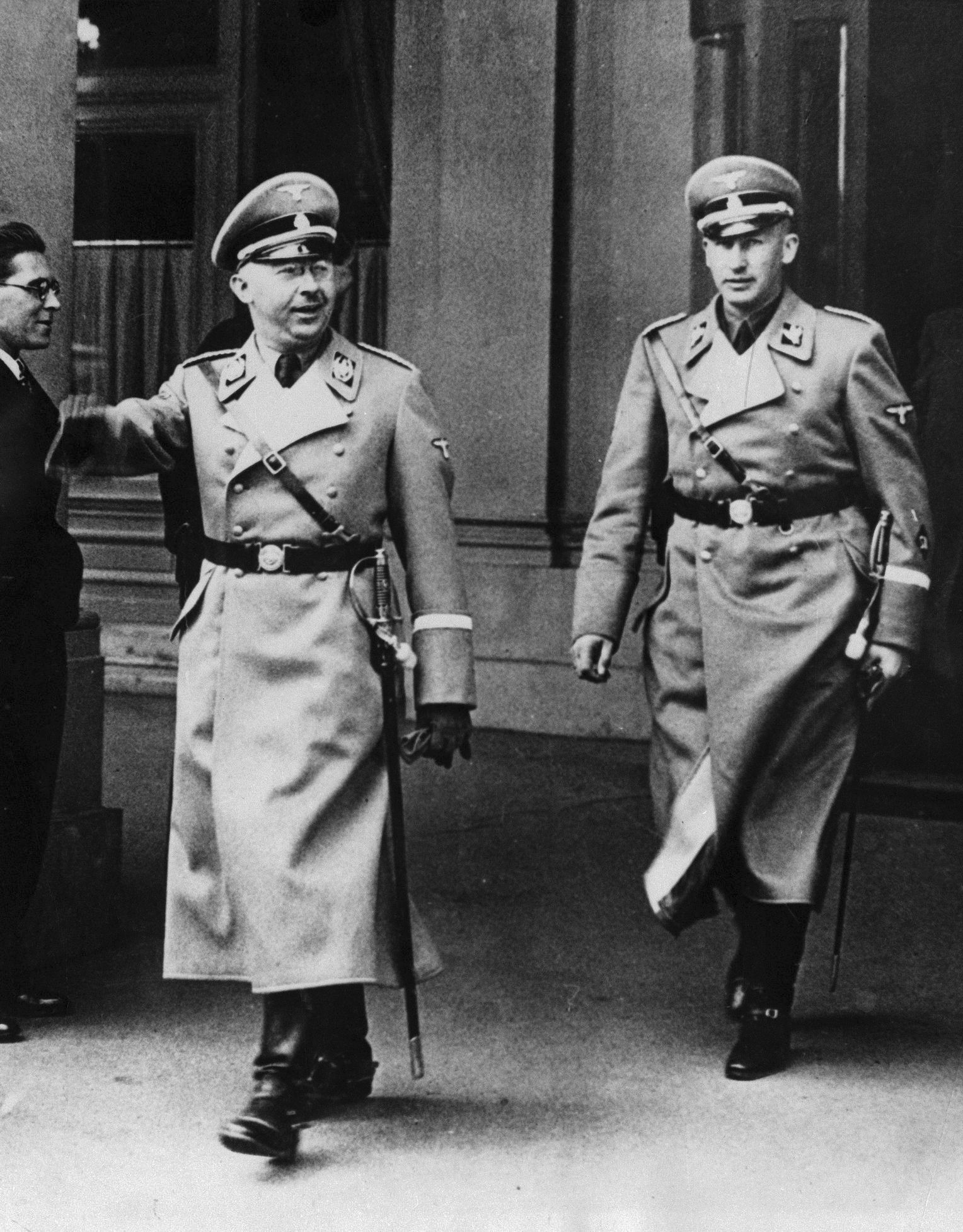 Heinrich Himmler and Reinhard Heydrich in Vienna, March 1938